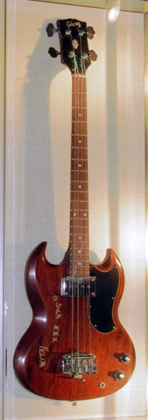 Jack Bruce's 1967 Gibson EB-0 bass guitar displayed on the wall at the Hard Rock Cafe in Pittsburgh, Pennsylvania, on September 3, 2016. The plaque on the wall under the bass contains the following information: "This 1967 Gibson EB-0 was given to Cream bassist Jack Bruce by producer/bassist Felix Pappalardi. Felix was the bass player for Mountain and produced Disraeli Gears, Wheels of Fire, and Goodbye for Cream." On the bass, below the strings, is the following inscription: "To Jack XXX Felix".